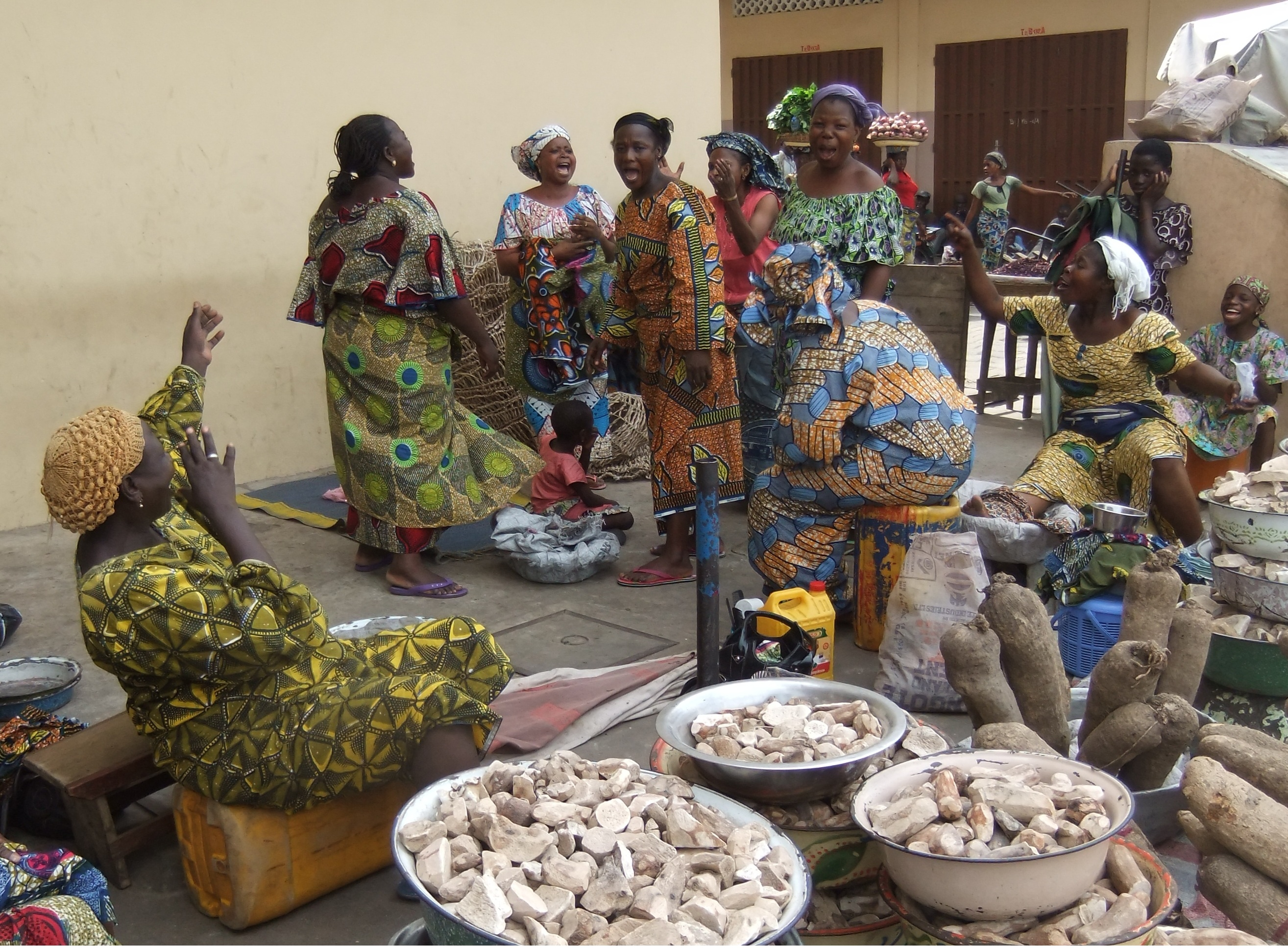 Cotonou, Benin This is an image of "African people at work" from Benin